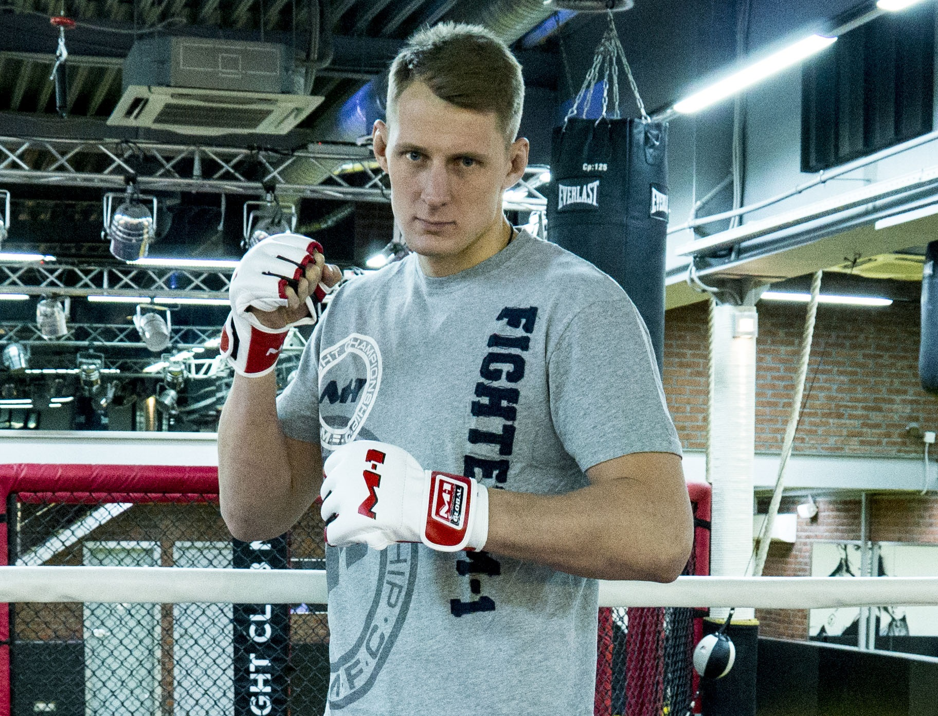 Alexander Volkov in M-1 Global